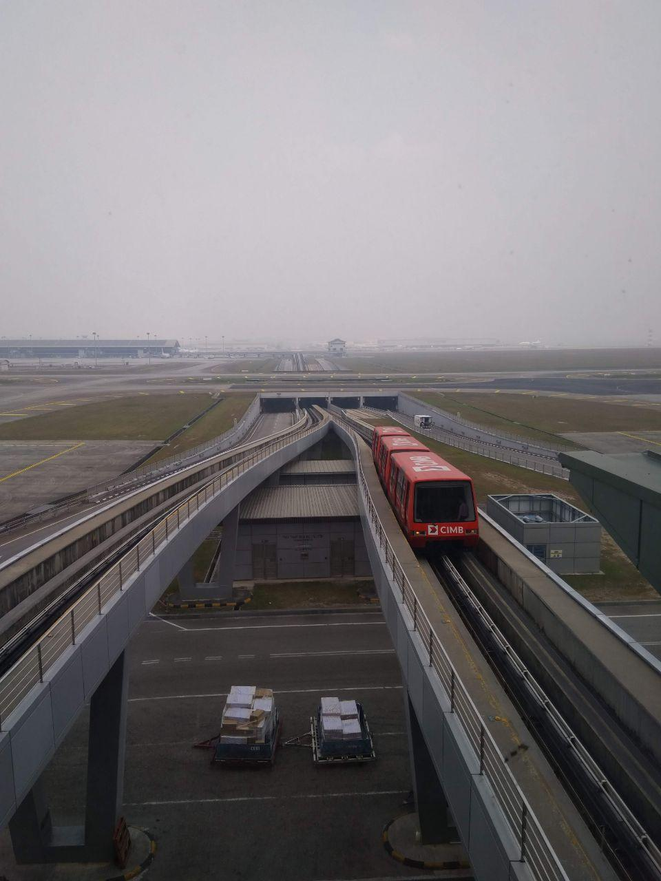 KLIA Aerotrain towards Main Terminal